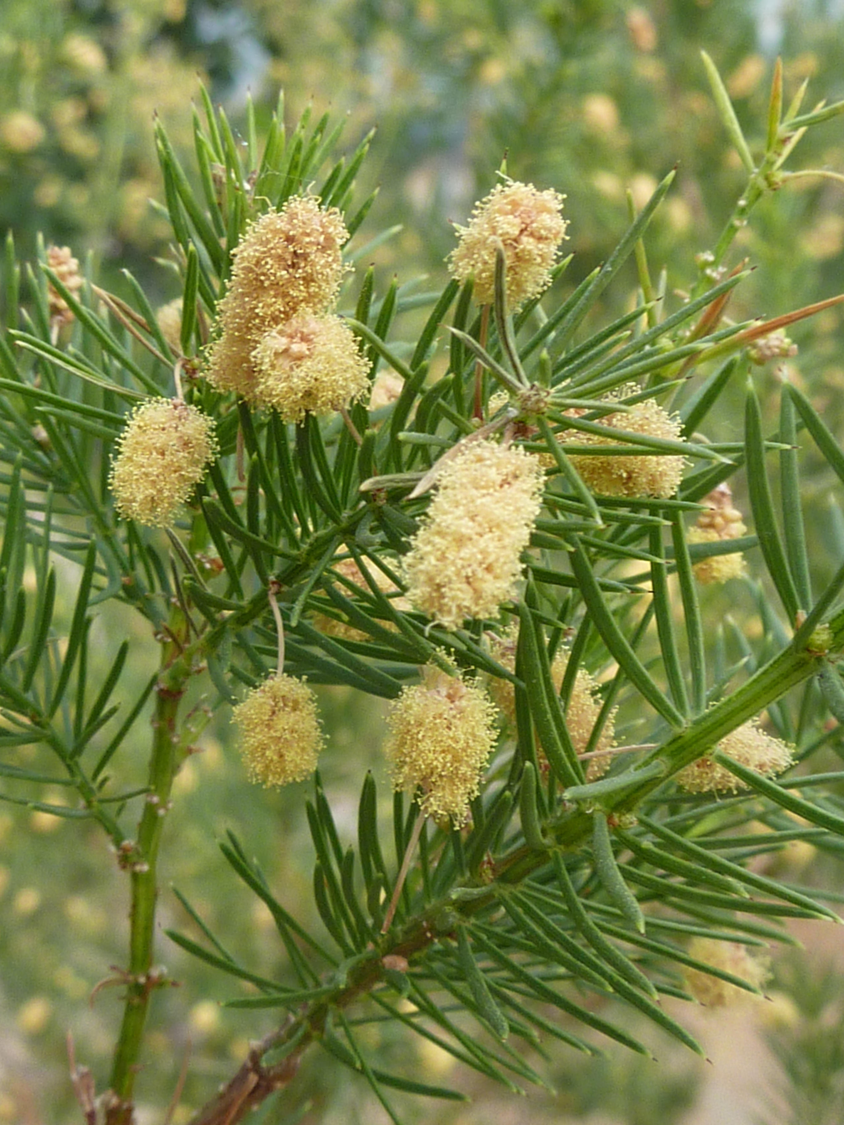 Taken in the Cambridge University Botanic Garden.